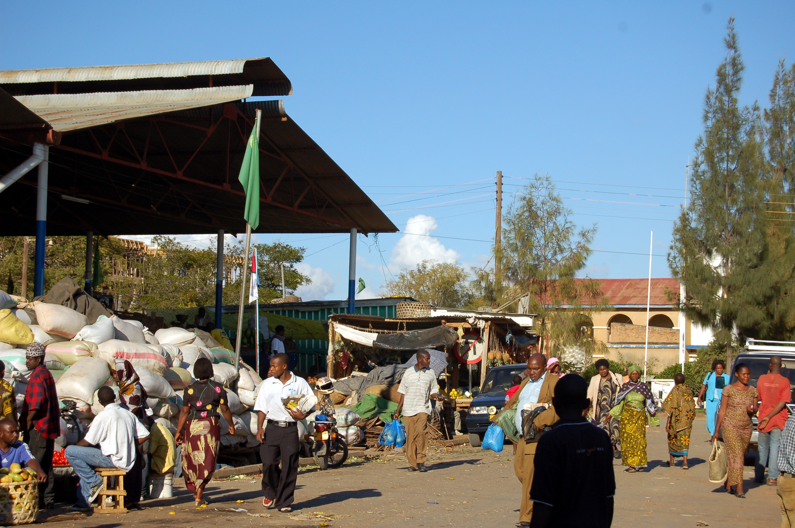 A Market in Iringa City, Tanzania